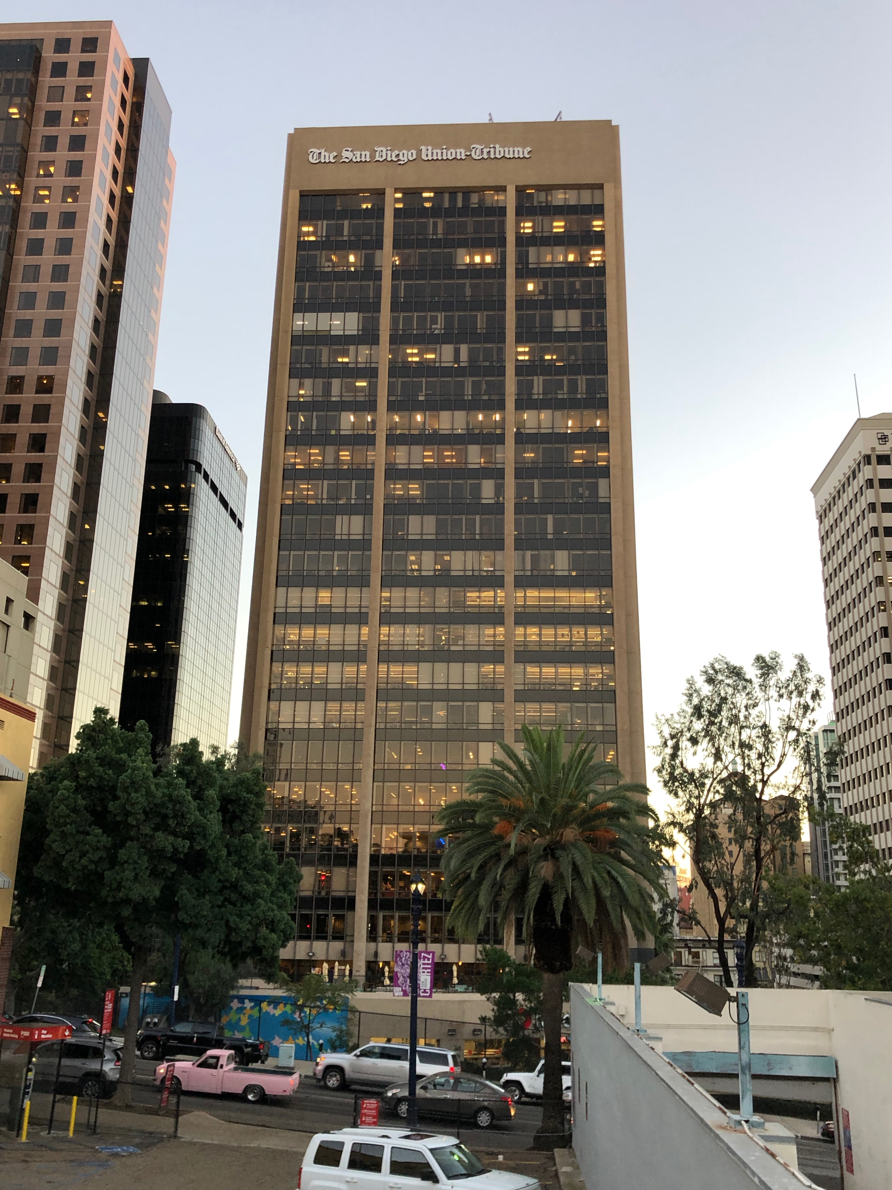 The San Diego Union-Tribune Building, 600 B Street, San Diego, CA 92101, USA. Take from the north, looking south.